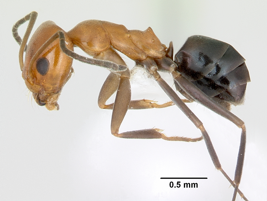 Profile view of ant Dorymyrmex pyramicus albemarlensis specimen casent0173213.